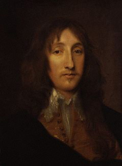 Richard Boyle, 1st Earl of Burlington (1612-1698)